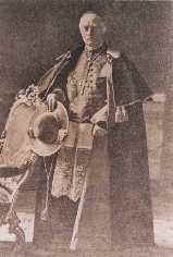 An old image from 1931 or before without copyrights or author's name